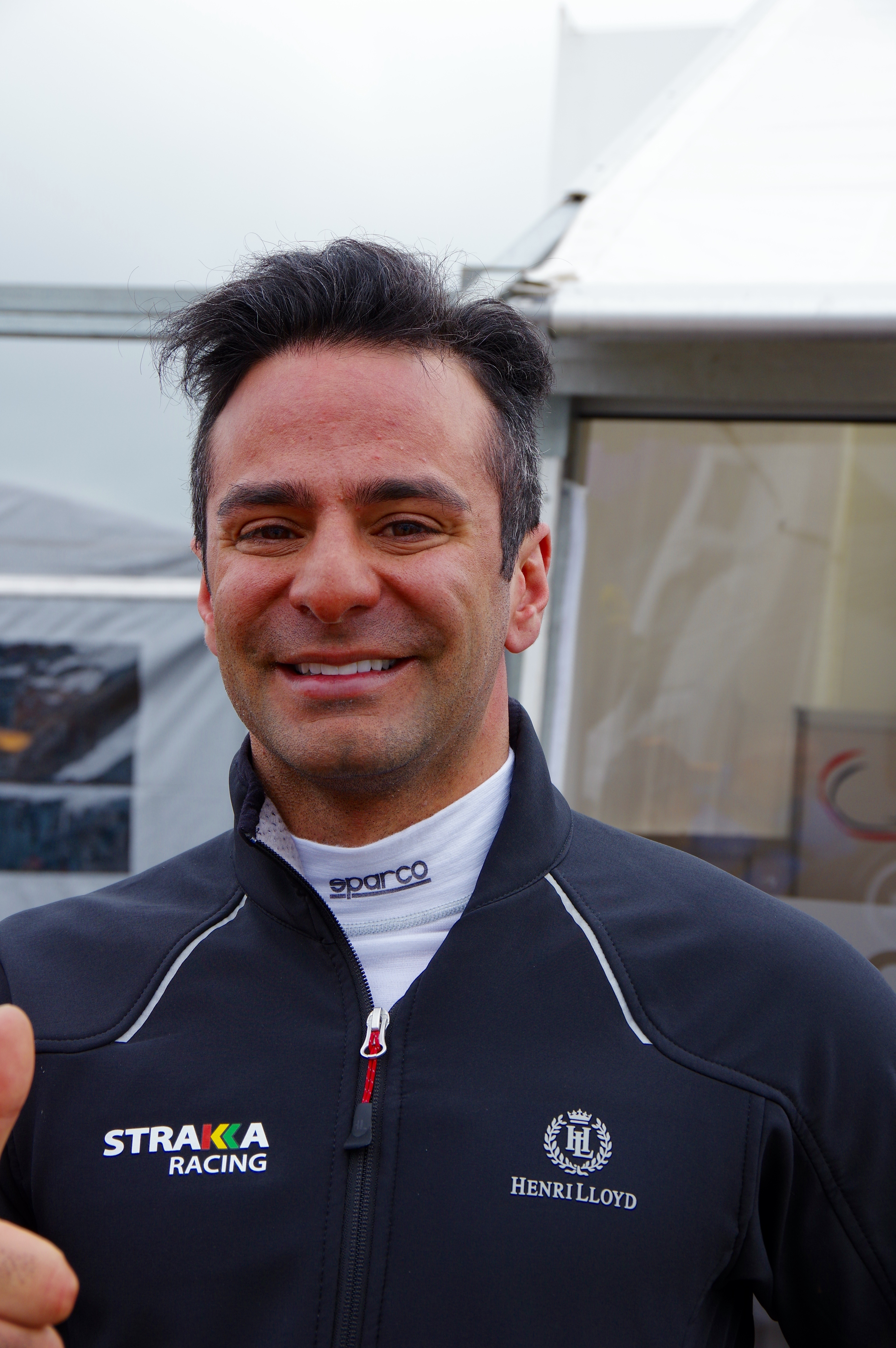 Nick Leventis, driver of Strakka Racing's Gibson 015S Nissan